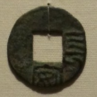 Chang'an Coin, a rare bronze coin of the Qin State, casted by Chengjiao, Lord of Chang'an, who was Qin Shi Huang's younger brother. Chang'an is the fief of Chengjiao, today known as Xi'an. Photographed by User:Baomi at the National Museum of China in 2015.